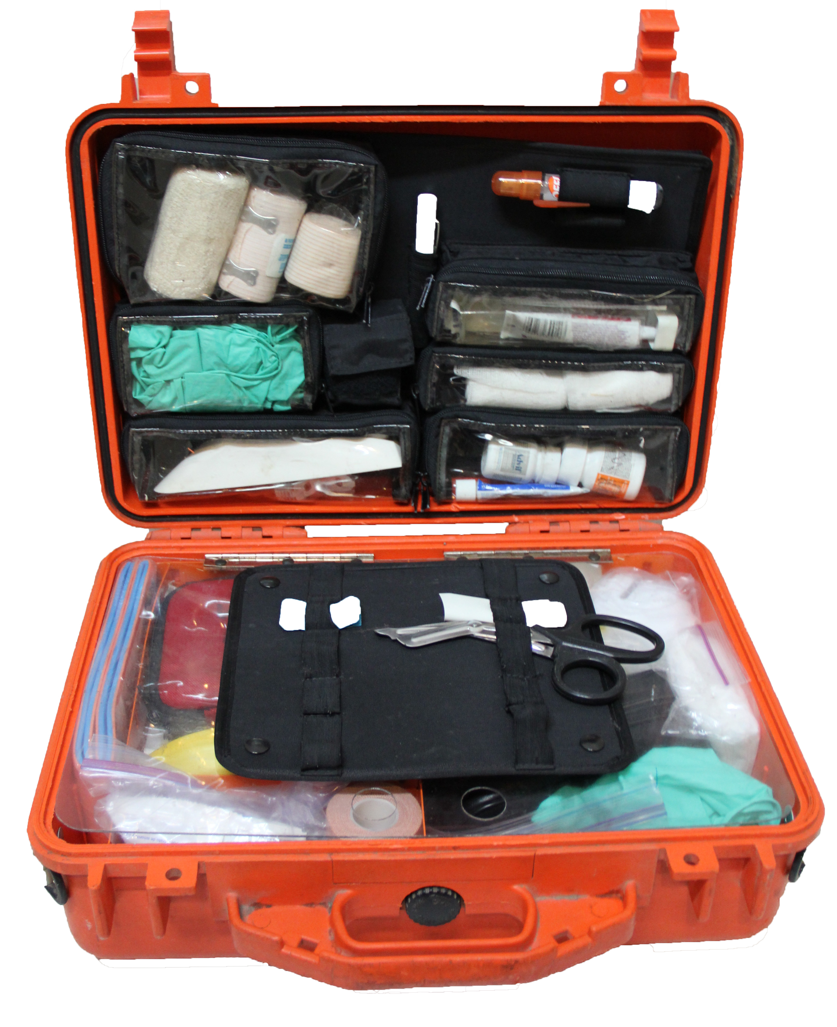 First aid 070